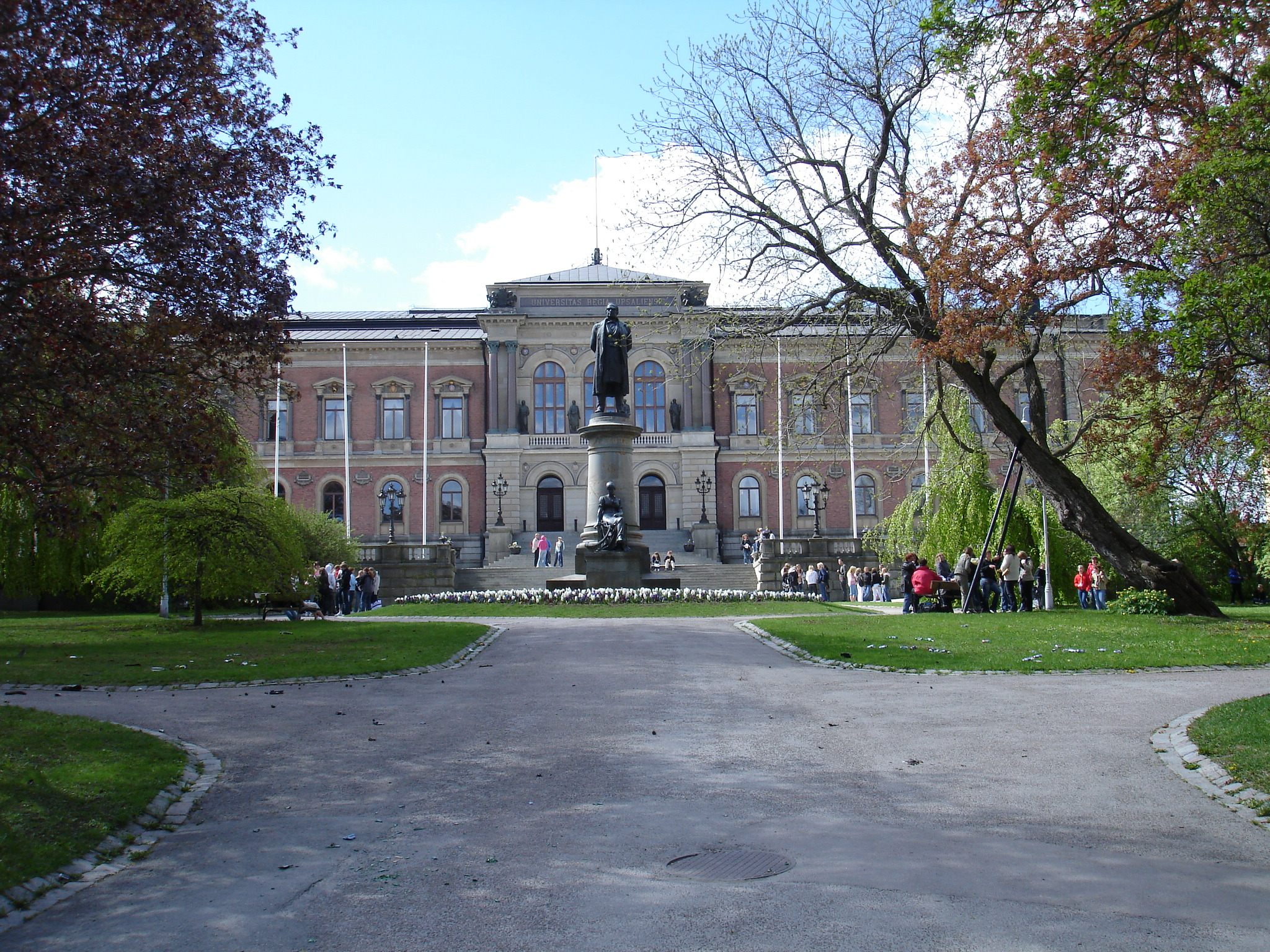 Picture of the University House in Uppsala, Sweden. Photo by User:(WT-shared) Jonas Ryberg.